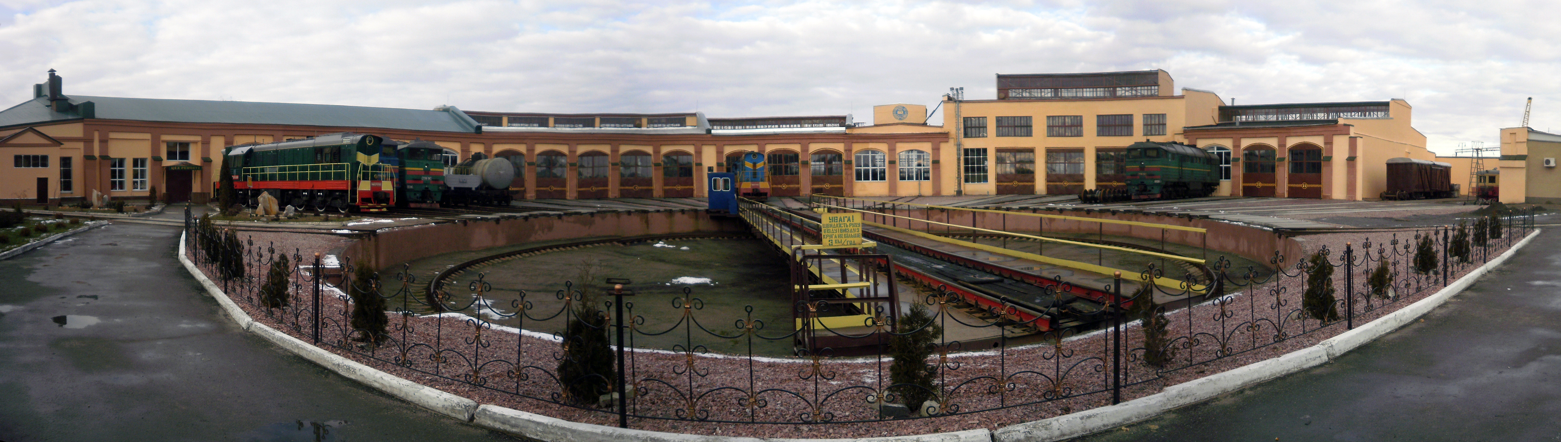 Turntable in depot Konotop of Ukrainian Southwestern Railways.